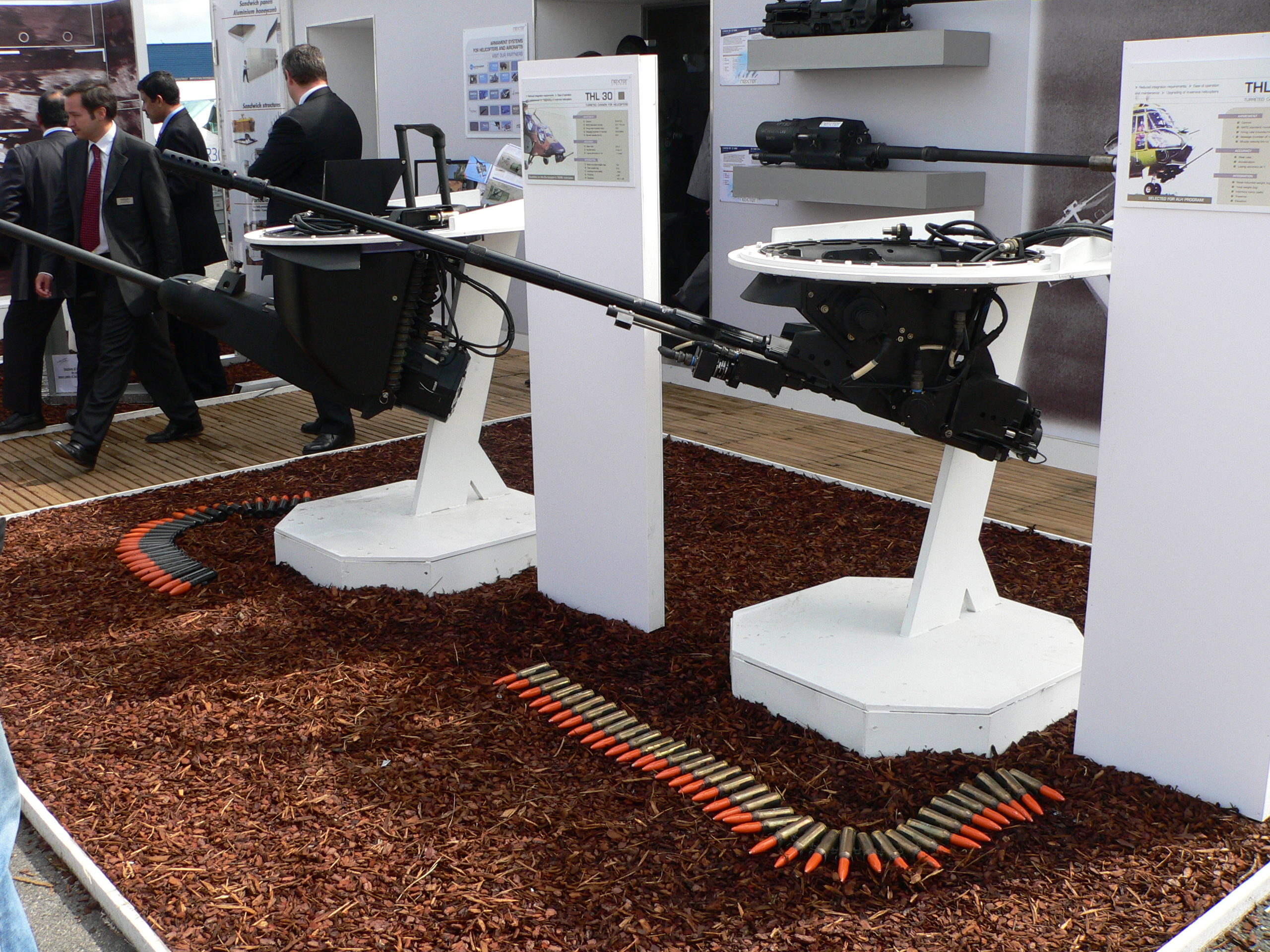 The Nexter stand at Le Bourget